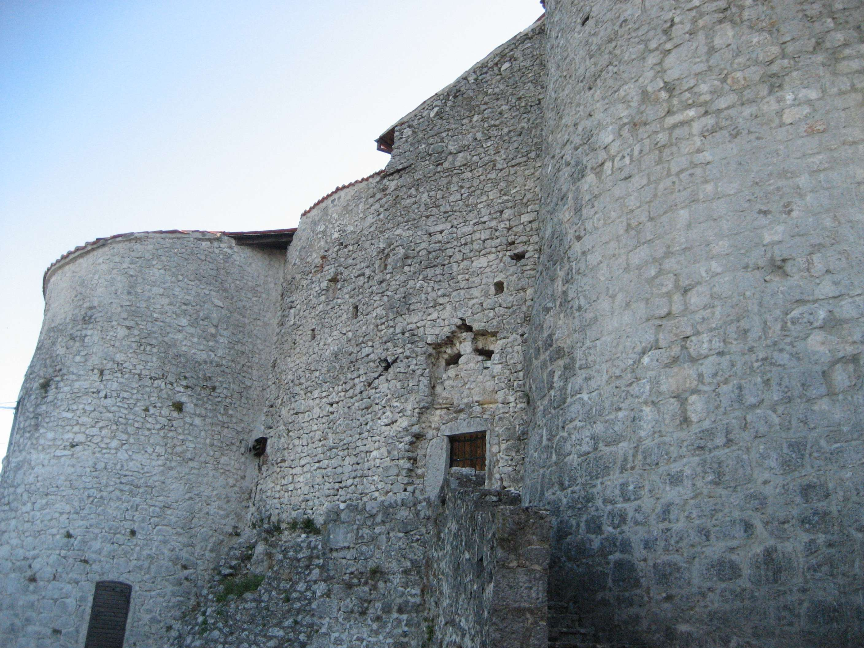 Castle Grobnik, Croatia